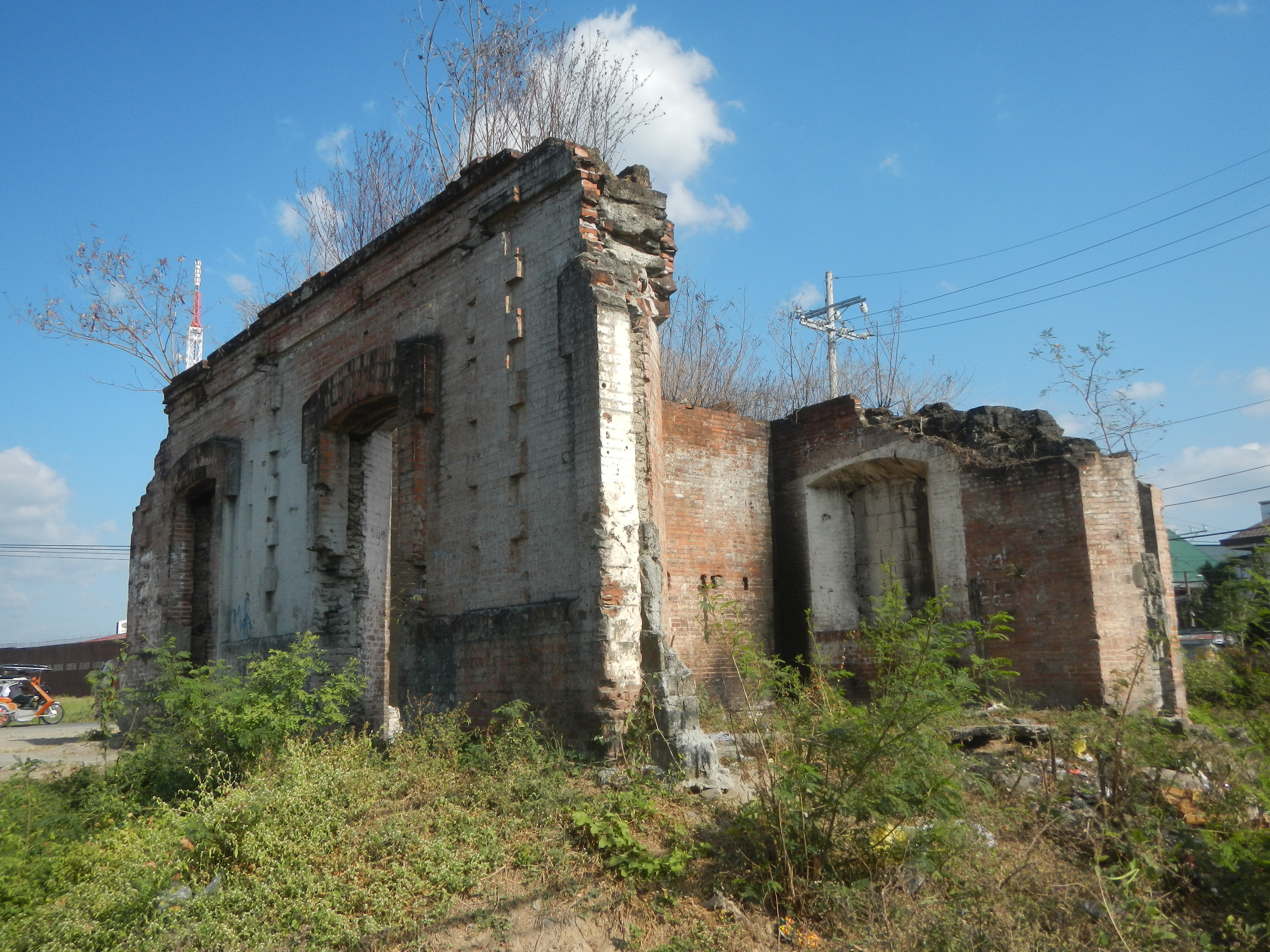 Tuktukan, Guiguinto, Bulacan Farm-to-Market Road Tabe, Guiguinto, Bulacan Farm-to-Market Road List of Philippine National Railways stations Philippine National Railways Old PNR Railway Station (Tuktukan & Tabe, Guiguinto, Bulacan) Guiguinto railway station is one of the defunct stations a former railway station that is situated on the Northrail line PNR Guiguinto Station 14°50'15"N 120°51'40"E interconnects with Balagtas railway station Balagtas or Bigaa station is one of the defunct stations in Barangays Tuktukan 14°49'23"N 120°53'32"E Tabe 14°49'49"N 120°53'8"E Guiguinto, Bulacan, Bulacan province towards or from MacArthur Highway or Manila North Road (Note: Judge Florentino Floro, the owner, to repeat, Donor Florentino Floro of all these photos hereby donate gratuitously, freely and unconditionally all these photos to and for Wikimedia Commons, exclusively, for public use of the public domain, and again without any condition whatsoever).